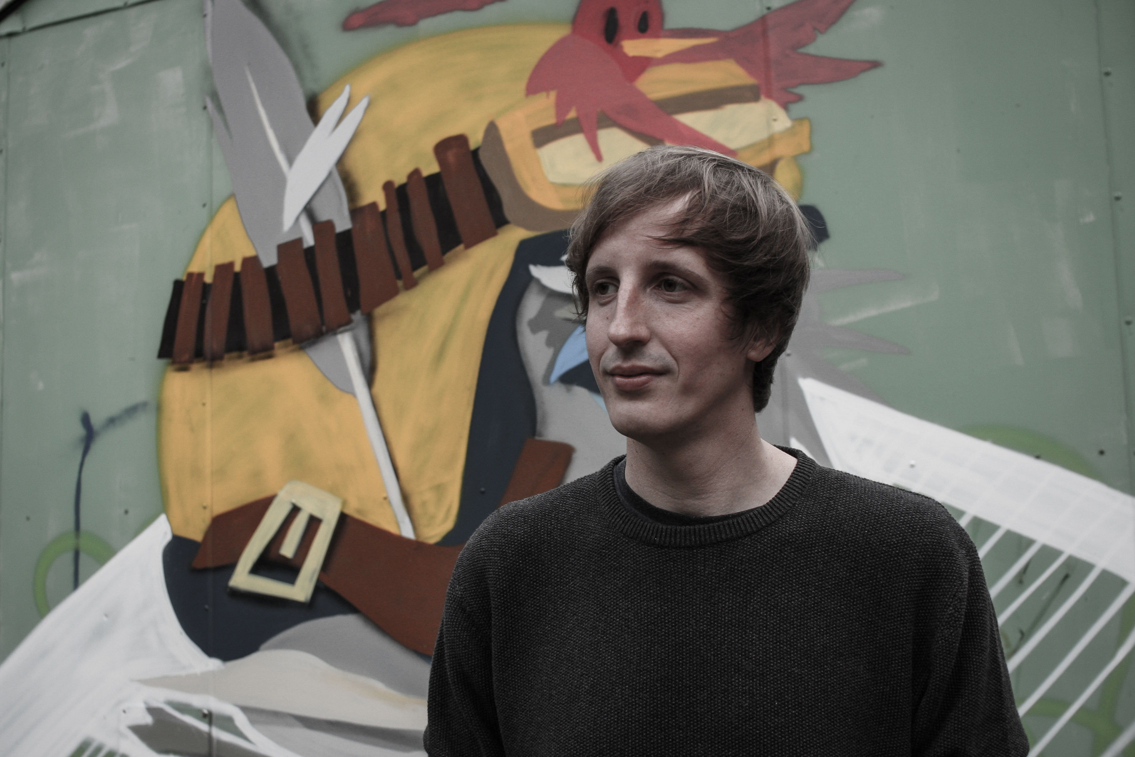 Festivalsommer This photo was created with the support of donations to Wikimedia Deutschland in the context of the CPB project "Festival Summer".